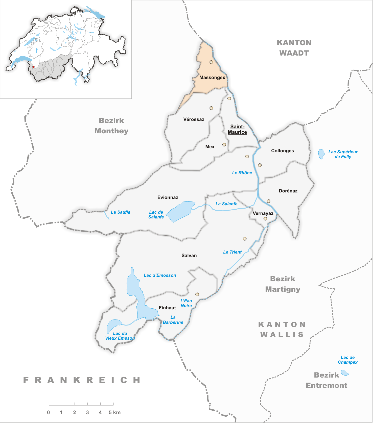 Municipality Massongex